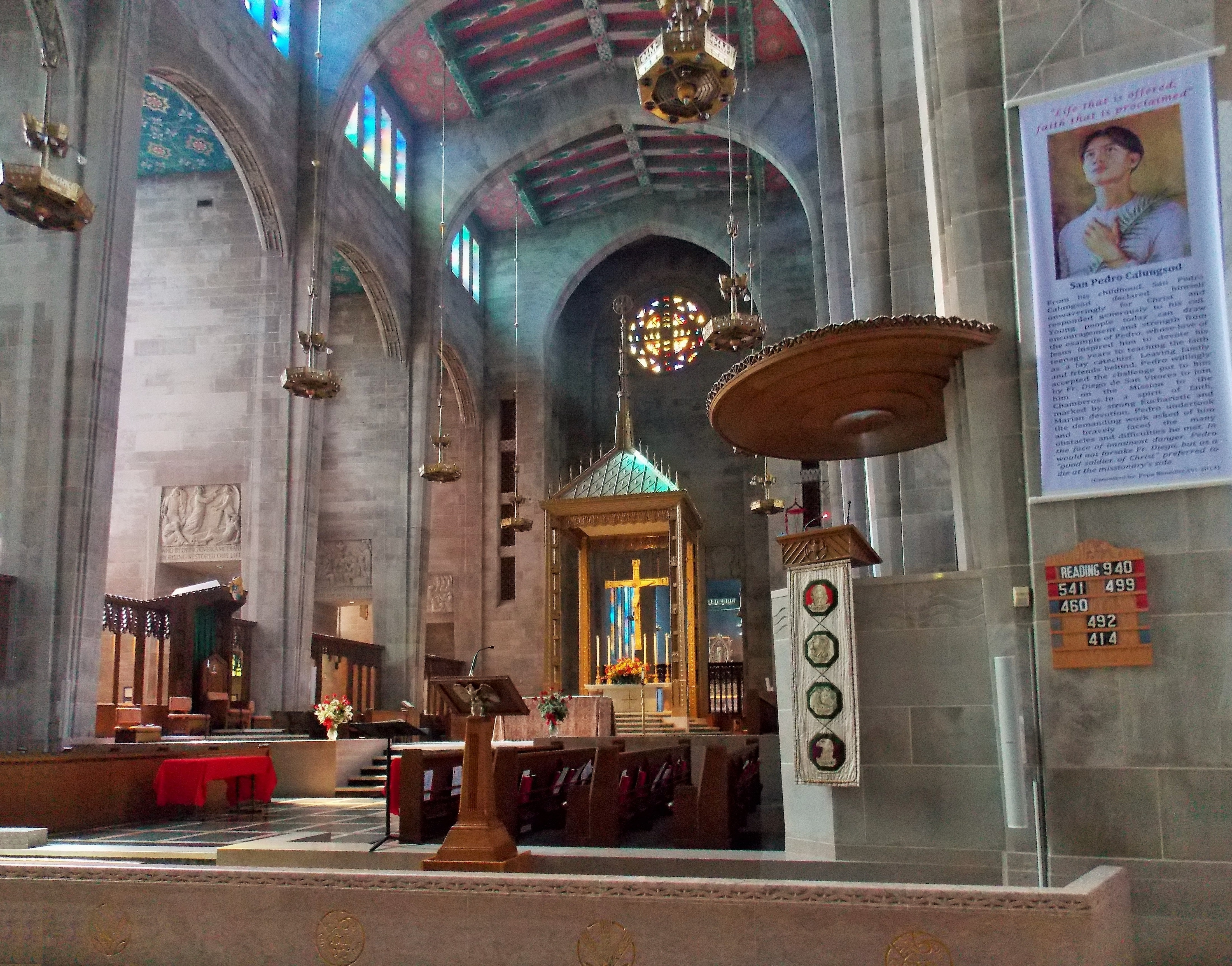 Baltimore, Roman Catholic Metropolitan Cathedral, Interior